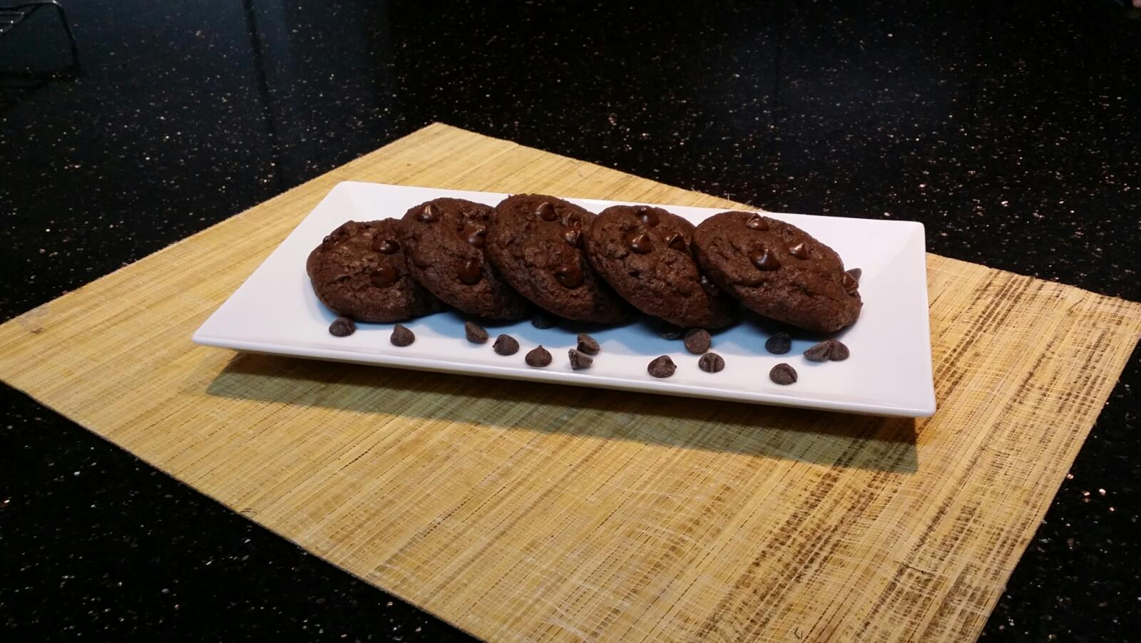 chocolate chips chocolate cookies